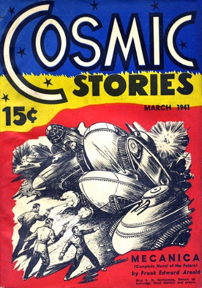 Cover of the March 1941 issue of Cosmic Stories